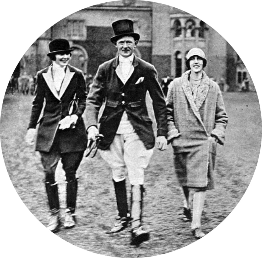 Meeting of the Beaufort Hunt at Grittleton House